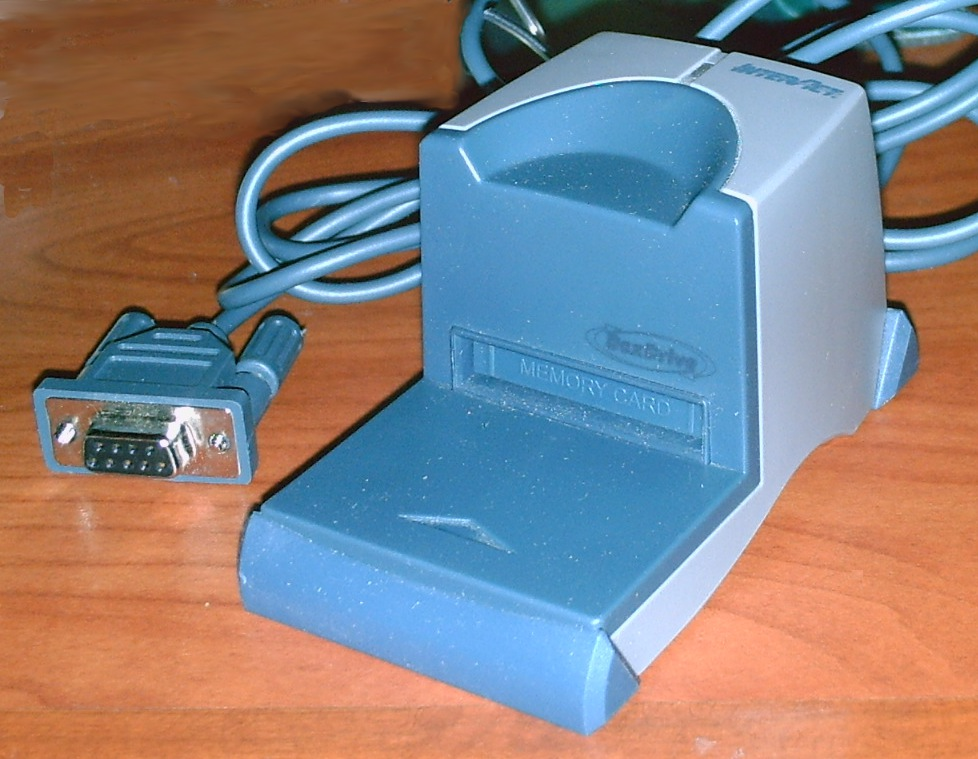 A PlayStation DexDrive unit. Doctored to remove extraneous elements.